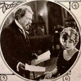 Still from the American drama film Drums of Fate (1923) with George Fawcett and Mary Miles Minter, on page 191 of the December 23, 1922 Exhibitor's Trade Review.